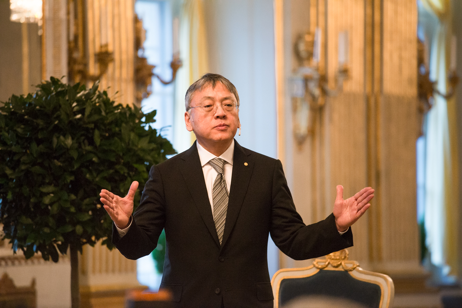 Kazuo Ishiguro in the Stockholm Stock Exchange during the Swedish Academy's press conference on December 6, 2017.